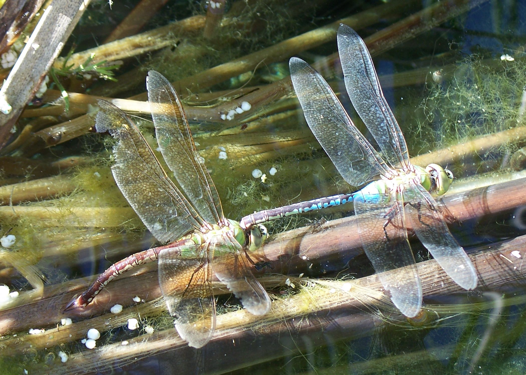 Common Green Darner. Laying eggs